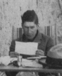 Henri Frankfort in the 1930's